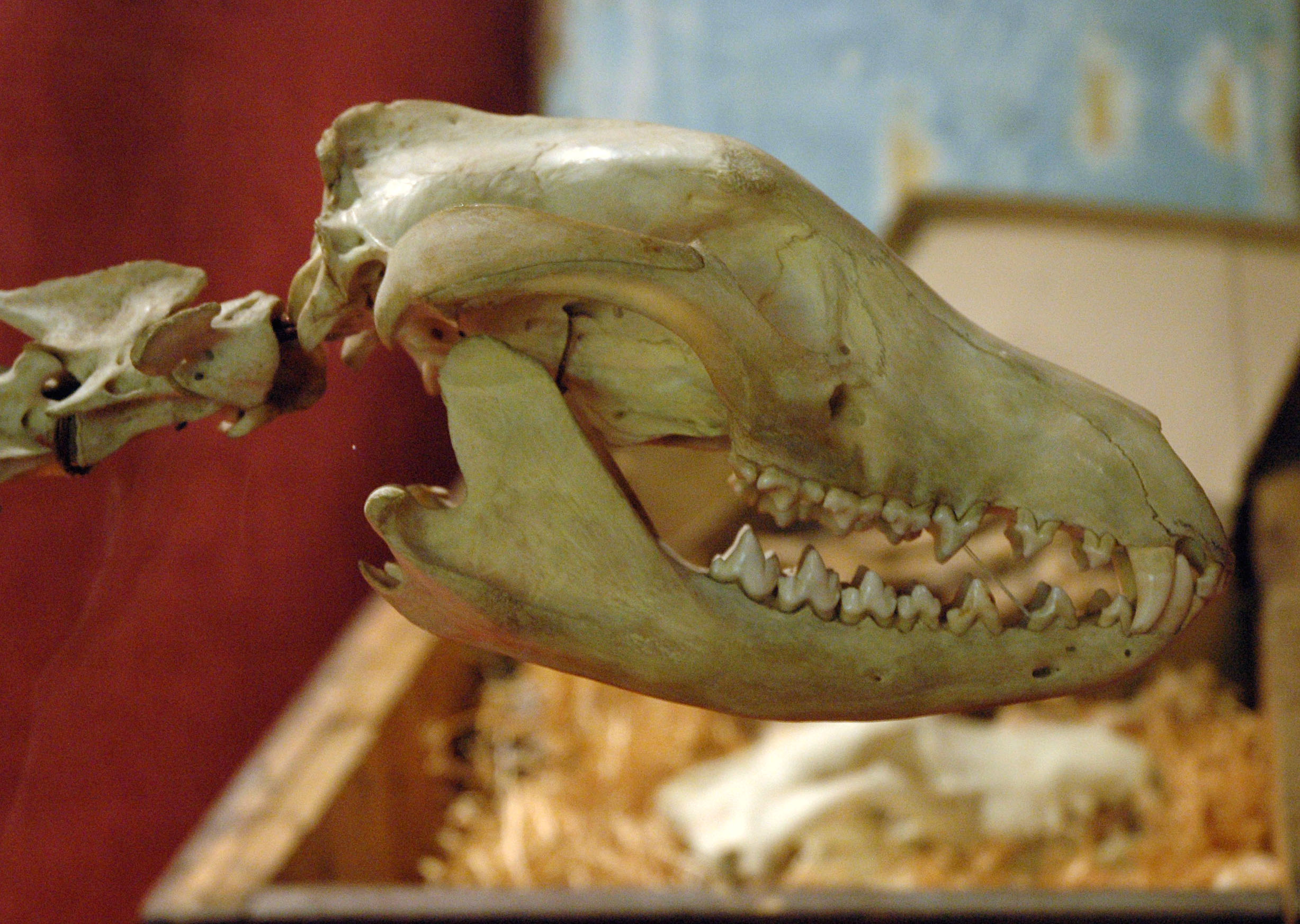 Thylacine skull (Thylacinus cynocephalus), Tasmanian Museum and Art Gallery, Hobart, Tasmania.